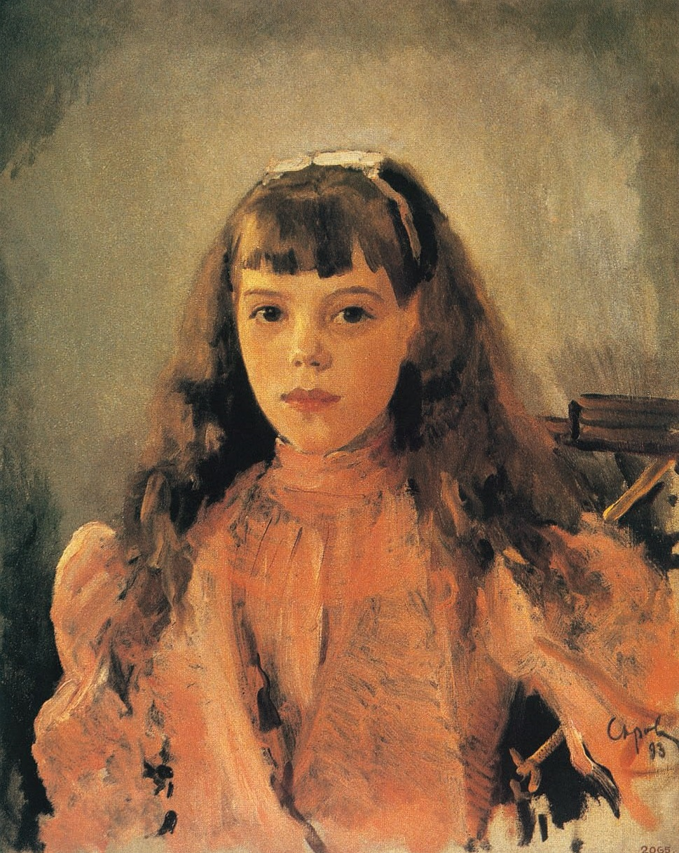 Portrait of Grand Duchess Olga Alexandrovna of Russia. Study